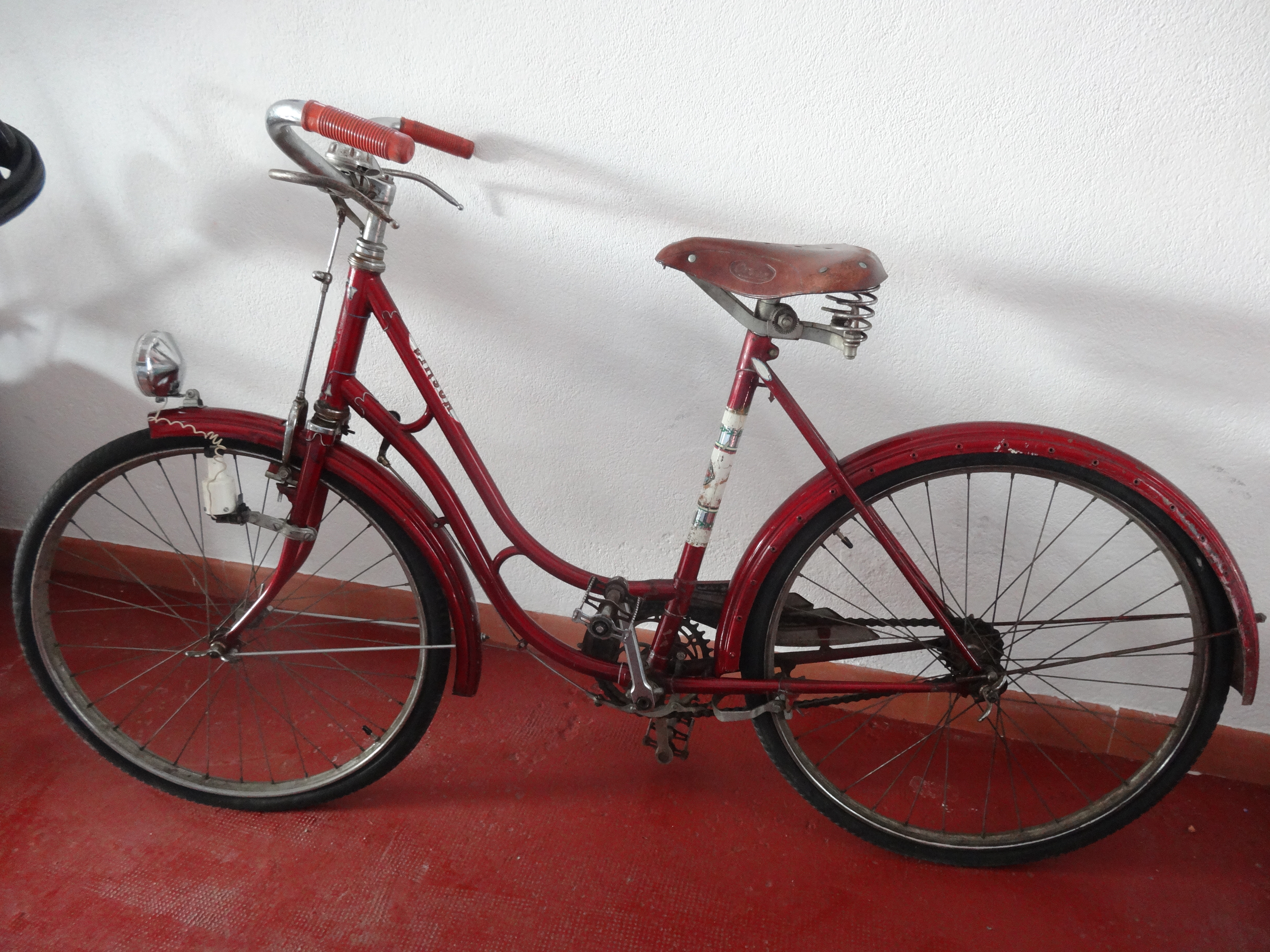 Gimson bicycle. Model for a young lady. The headlamp was added later.